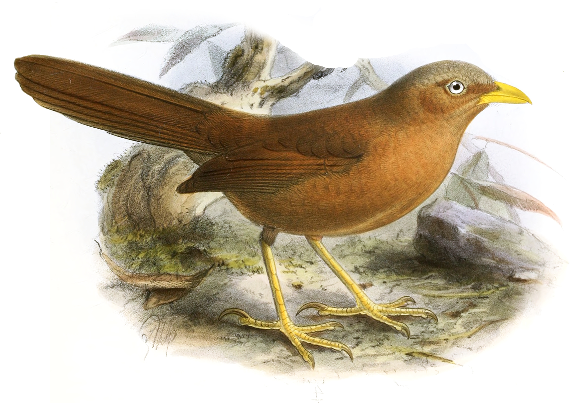 Turdoides rufescens